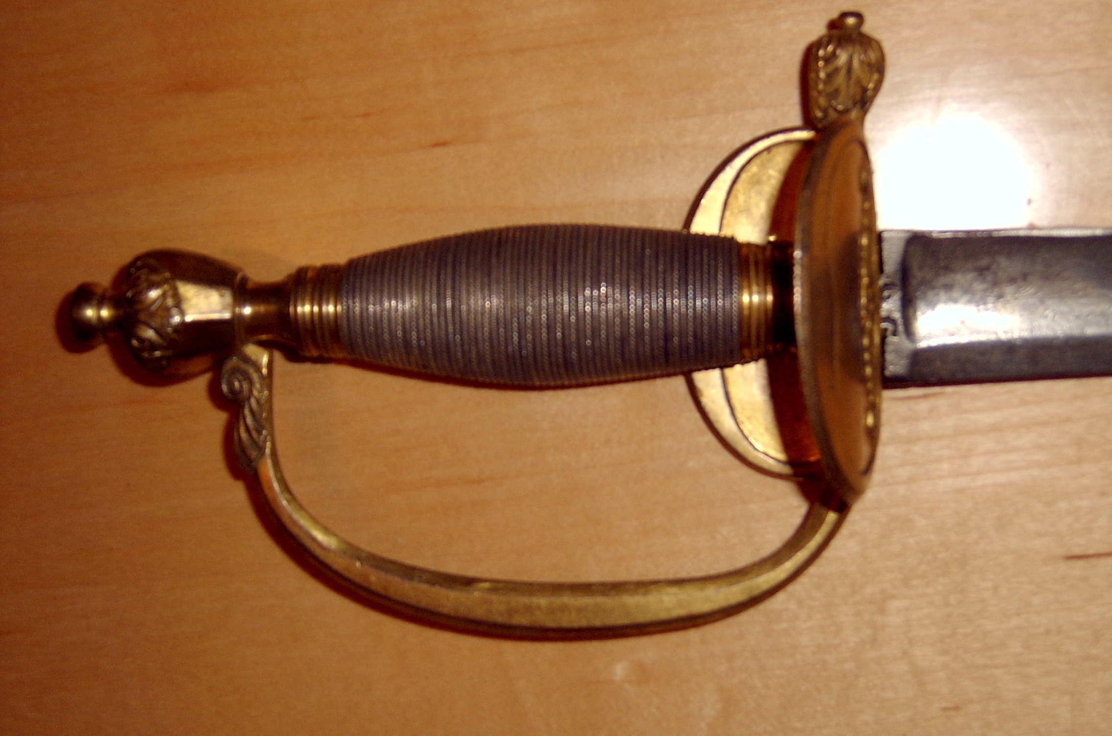 A photo by epeeist smudge of a 1796 pattern sword in his collection